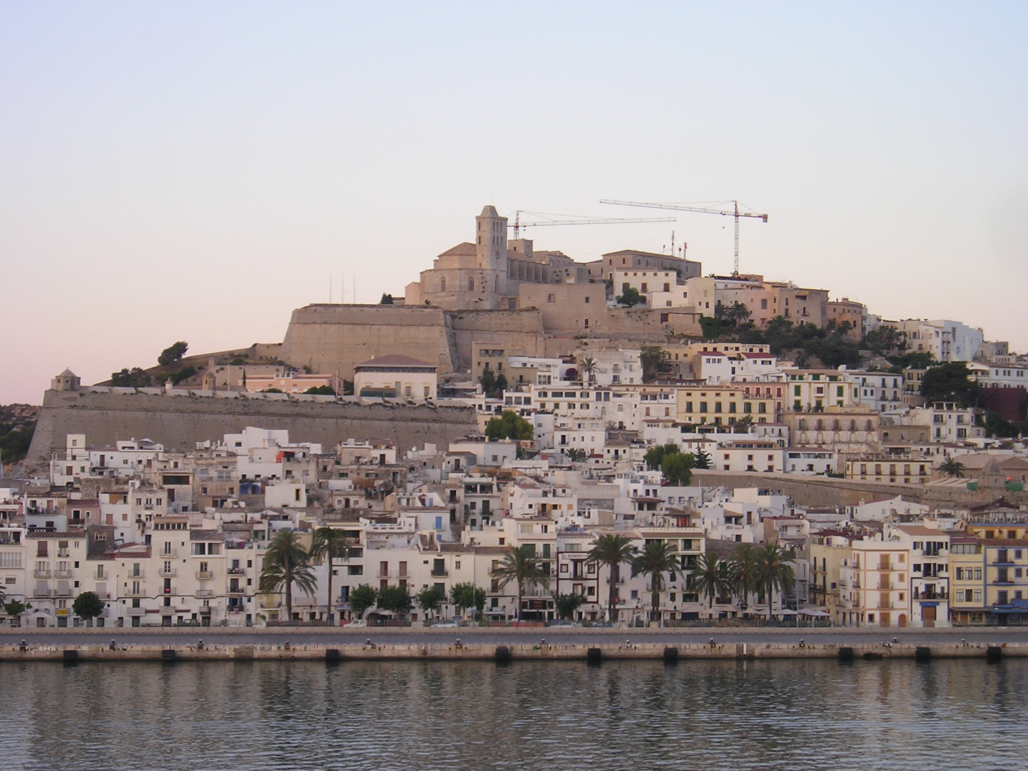 View of Ibiza Old Town with Cathedral Unknown